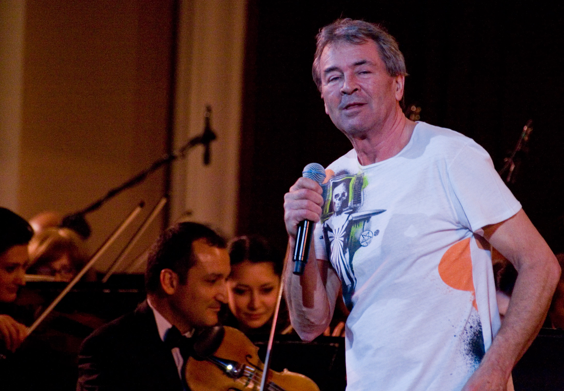 Concert of the soloist of Deep Purple Ian Gillan with the Armenian Philharmonic Orchestra. Conductor: Frideman Rile (Czech Republic) on March 26, at Armenian National Academic Opera & Ballet Theatre